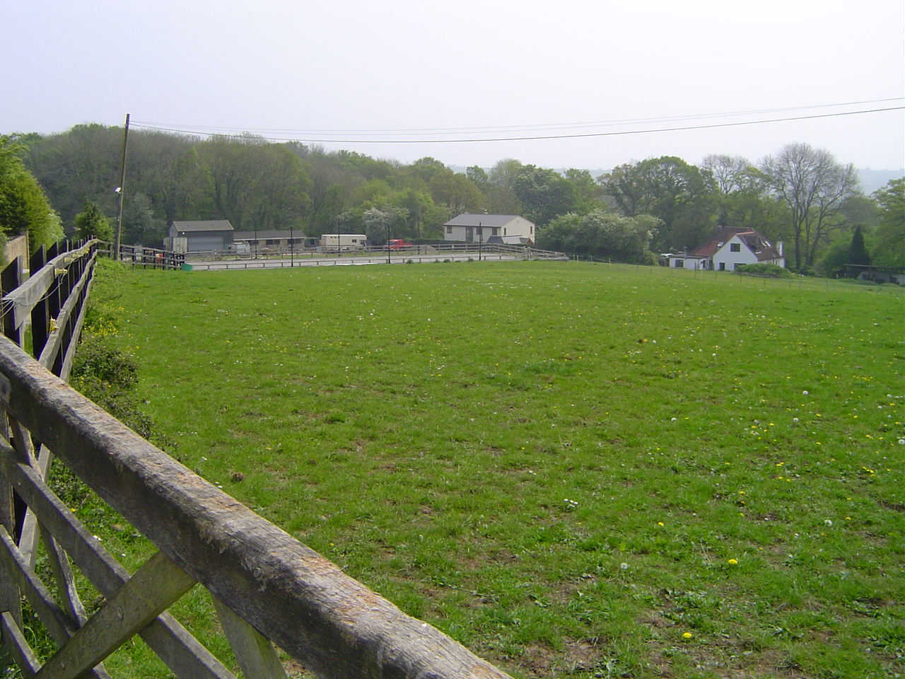 Landscape setting at Ram Hill showing the growing influence of "horsiculture".